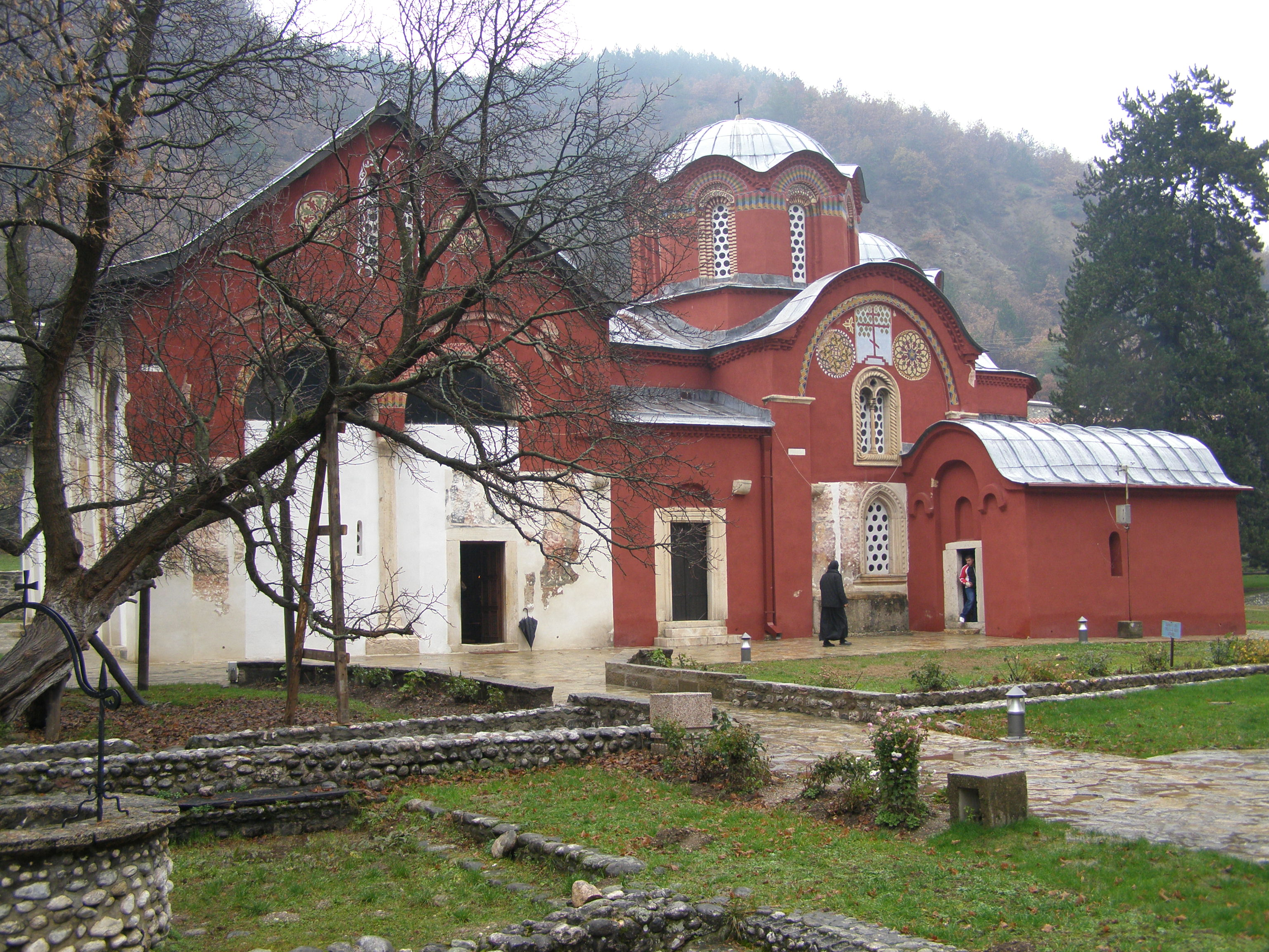 Church complex of the Patriarchate of Peć, Kosovo